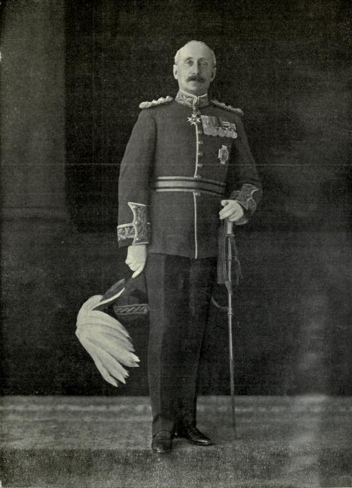 Major-General Sir John Nixon, K.C.B, 1915.